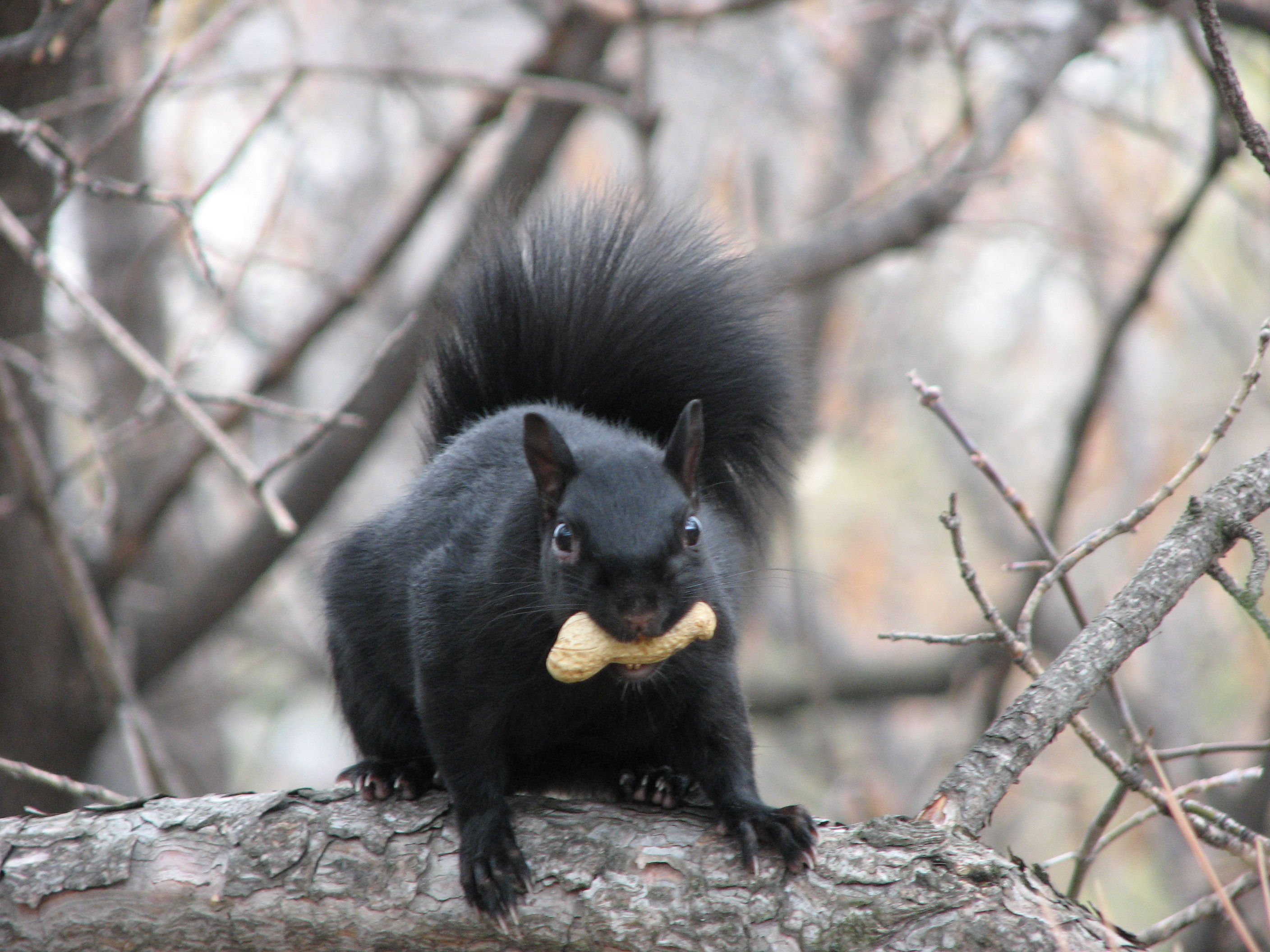 Eastern Grey Squirrel (Sciurus carolinensis), Ottawa, Ontario